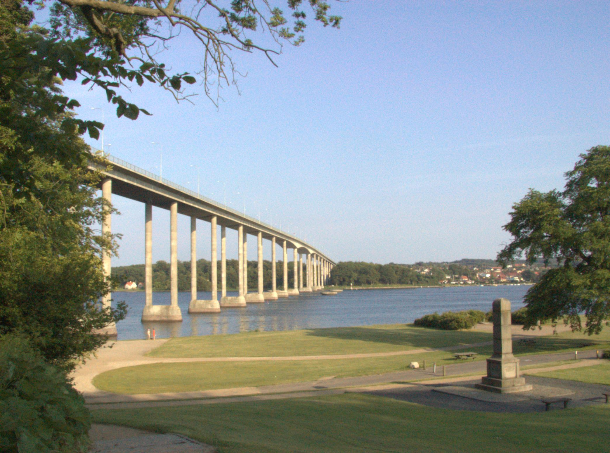 The Svendborg Sound Bridge, view towards Tåsinge island (higher resolution version will be contributed later)